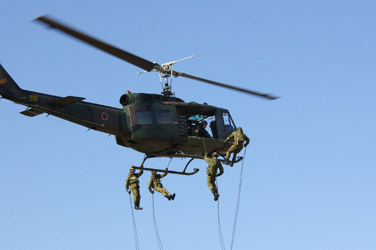 JGSDF UH-1H, in Camp Matsudo, Japan. UH-1H 2007年11月18日、松戸駐屯地で撮影。